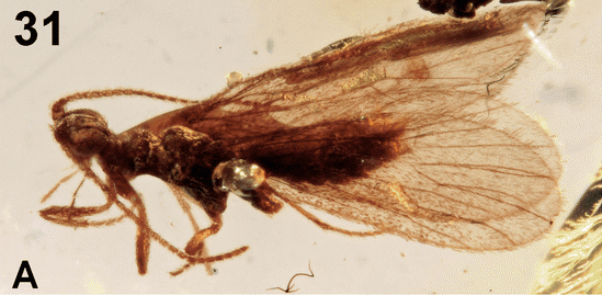 Kinitocelis brevicostata paratype, ♂ (BUB 307): (a) dorso-lateral view of adult